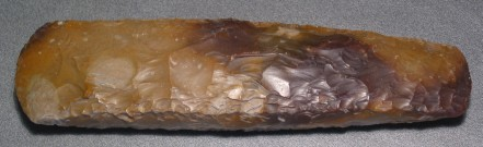 Thinbutted flintstone axe from the Neolithic. The axe has a length of 31 cm.